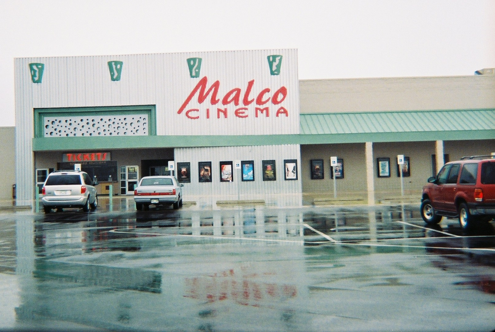 Picture of the Malco Cinema 8 in Columbus, MS. Picture taken by A. Nathan McDaniel 2005.